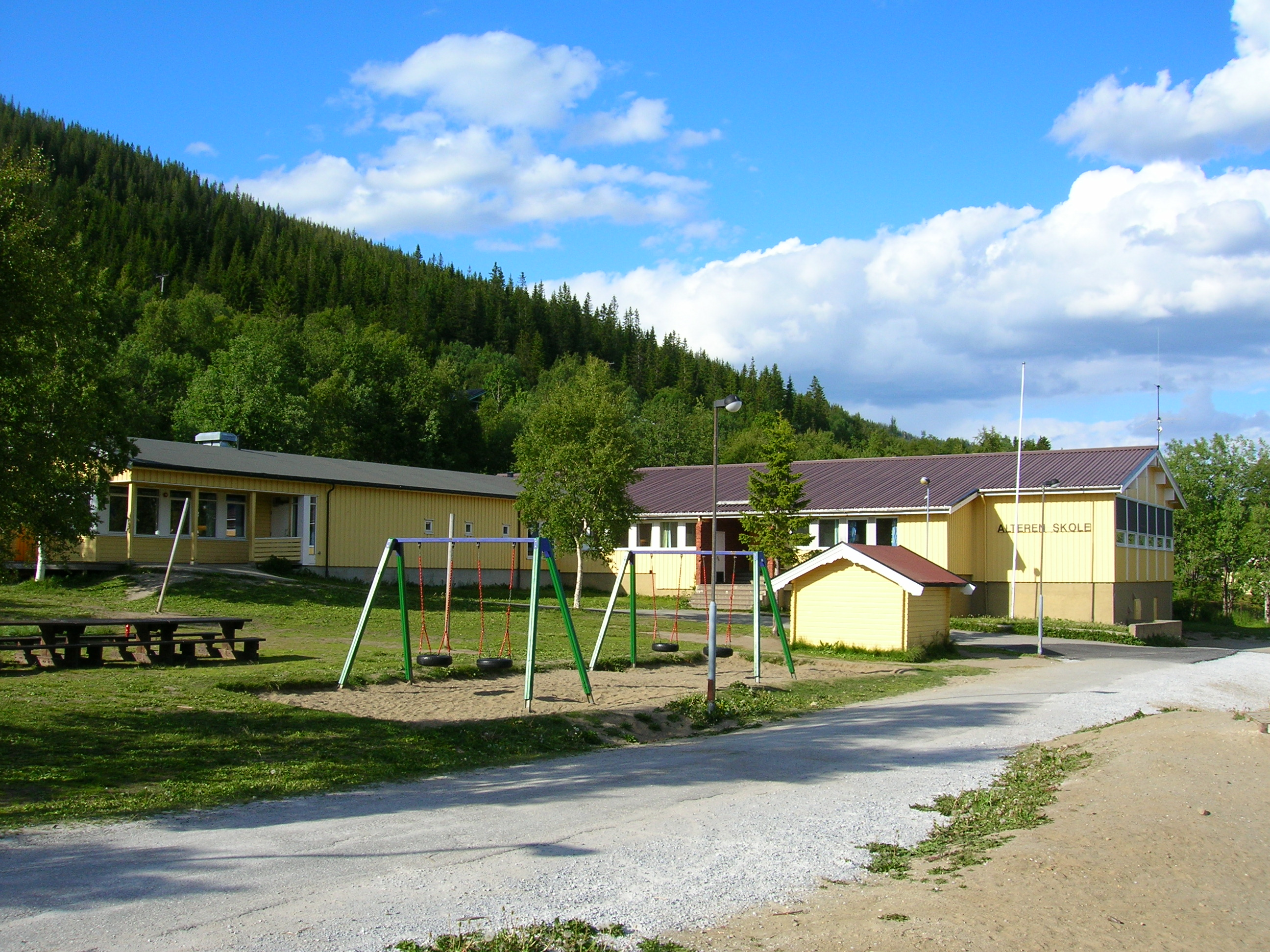 The Primary School at Alterneset in Rana, Nordland, Norway. Photo June 21, 2007 with a Nikon Coolpix 5600 5,1 Megapixel camera.